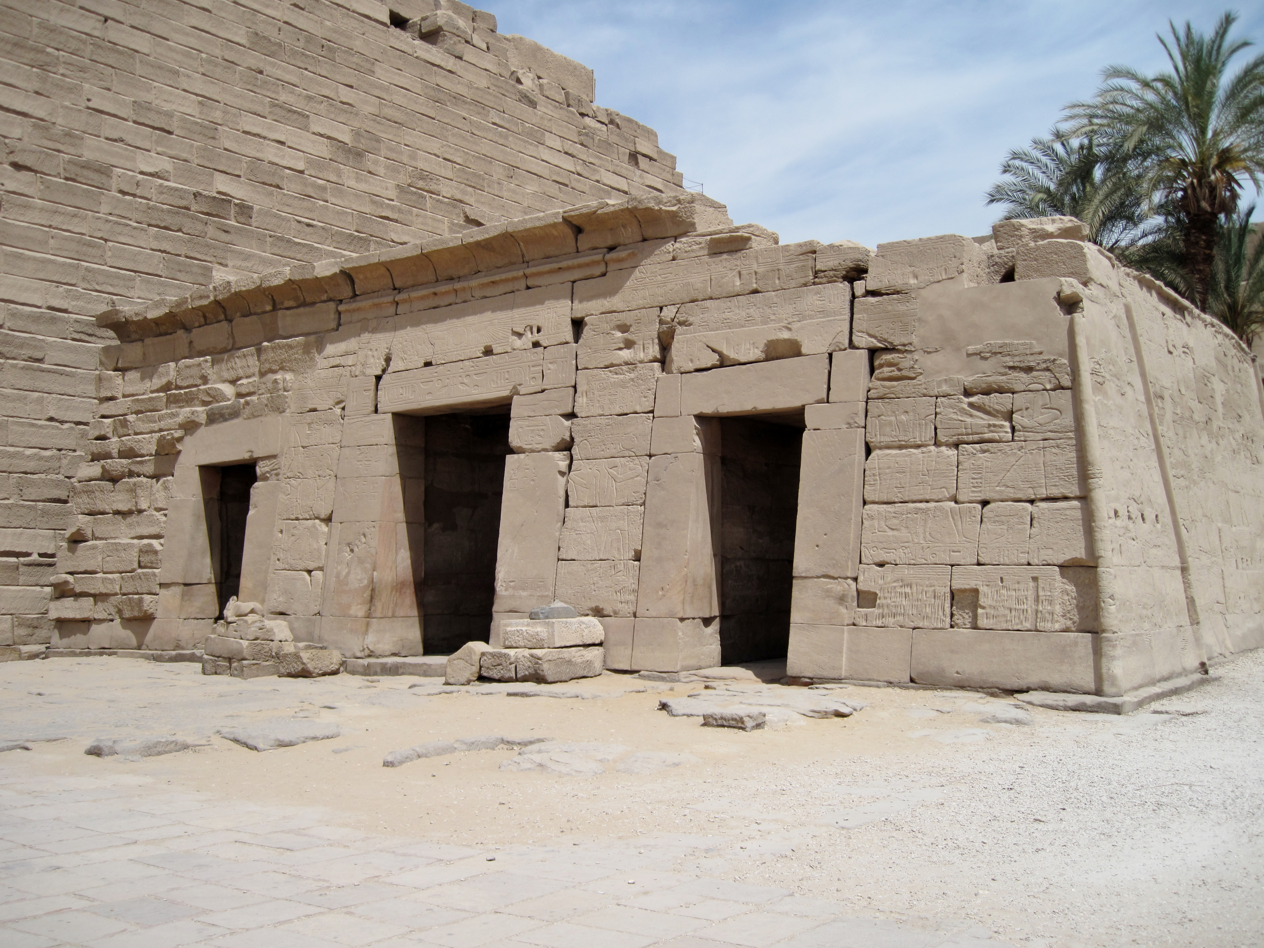 Temple of Seti II in the so-called Ethiopian courtyard (atrium) in the temple of Karnak north of Luxor, Egypt.